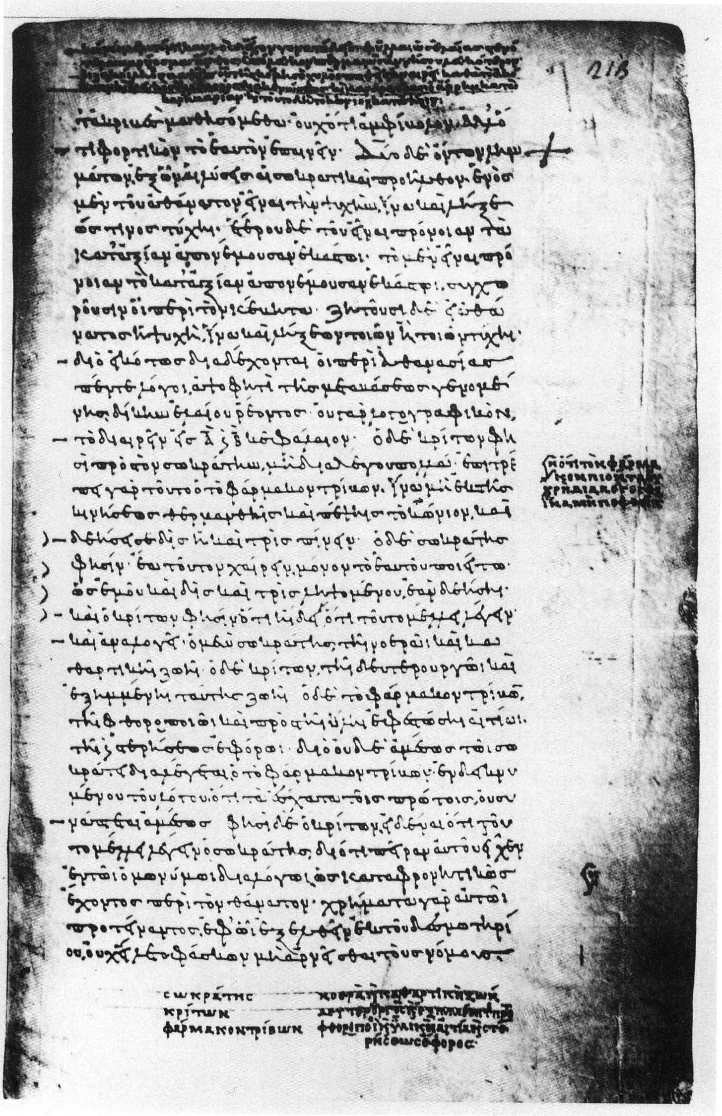 Olympiodorus the Younger, Commentary on Plato’s Phaedo. Manuscript Venice, Biblioteca Marciana, Gr. 196.